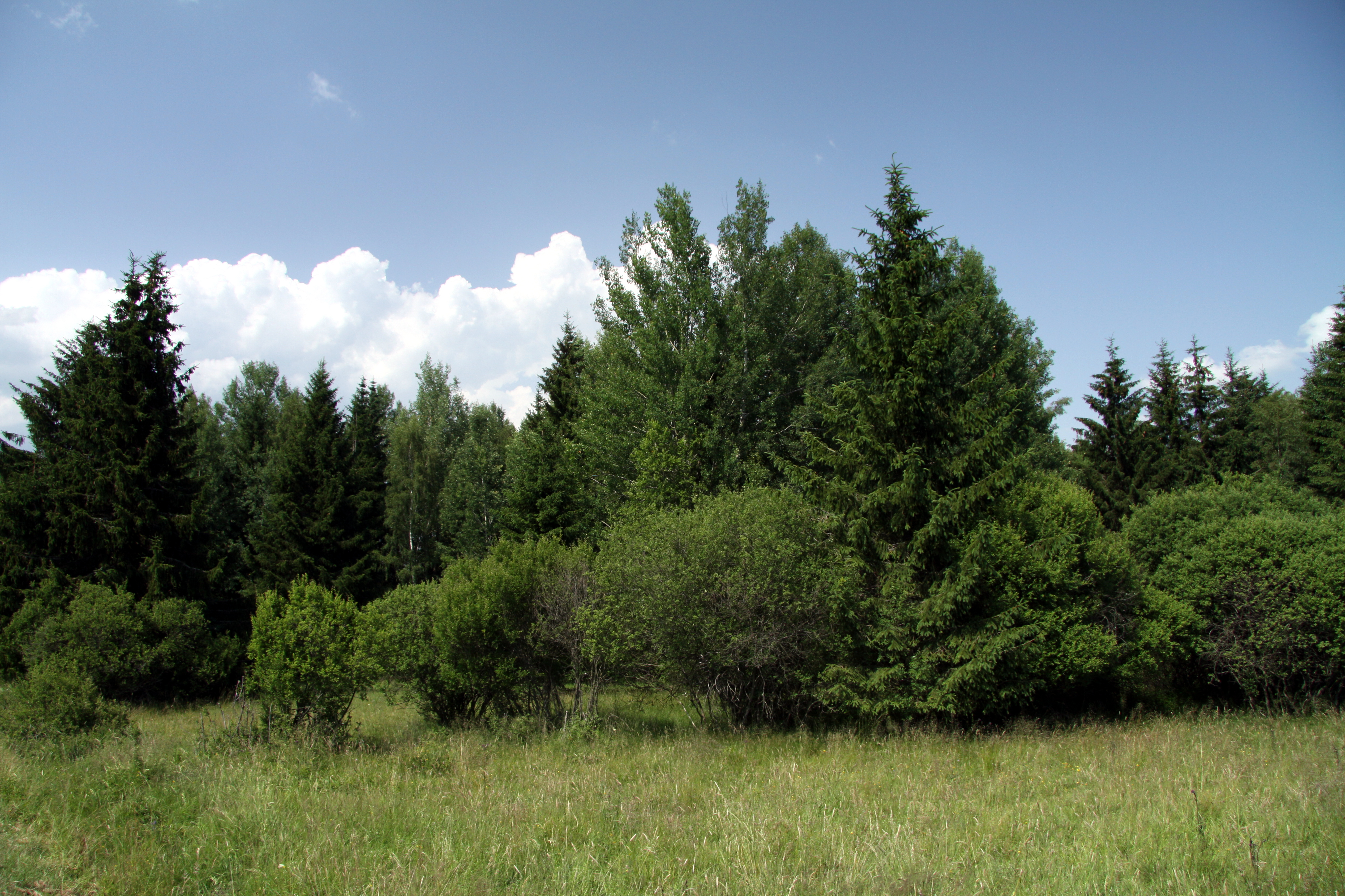 Nature reserve Mokřady pod Vlčkem near Prameny village in Cheb District, Czech Republic - Google Maps - Google Earth